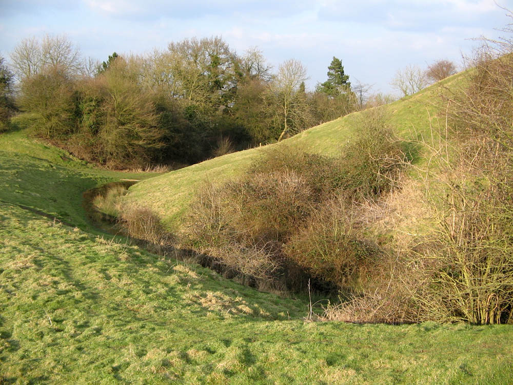 The well preserved defensive ditch surrounding the bailey, at Brinklow castle. As seen from the old motte area.